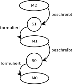 Beschreibt ein Modell M1 (unmittelbar) die Sprache S0, in der ein Modell M0 formuliert wird, so ist M1 ein (sprachbasiertes) Metamodell zu M0 (mittelbares Modell). Beschreibt ferner ein Modell M2 (unmittelbar) die Sprache S1 in der M1 formuliert wurde, so ist M2 entsprechend Metamodell zu M1, gegenüber M0 ist M2 jedoch Meta-Metamodell.